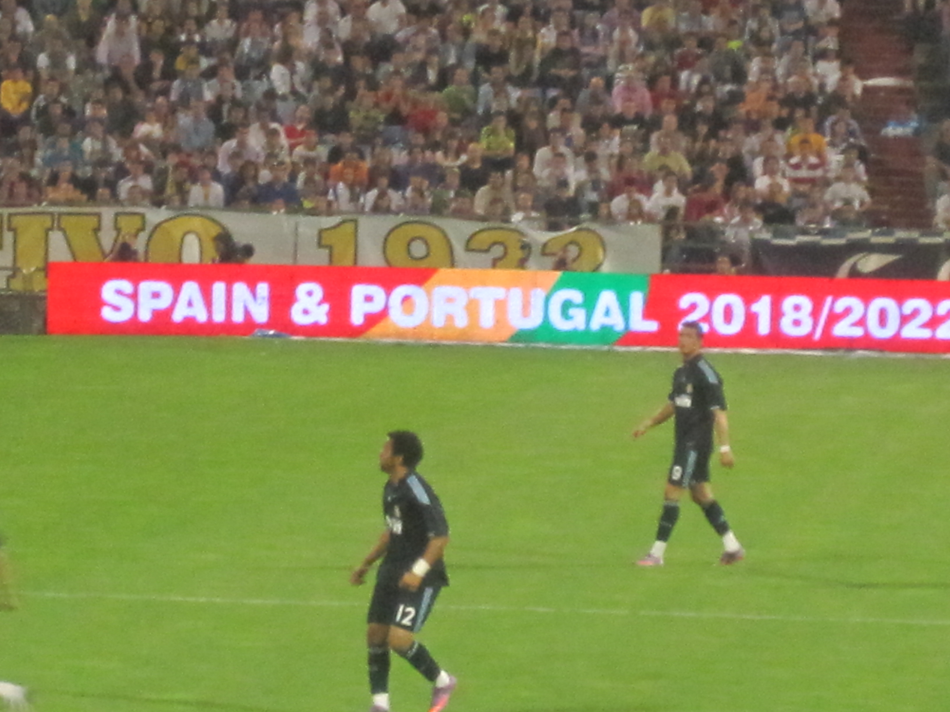 Candidatura Ibérica para el Mundial de 2018.